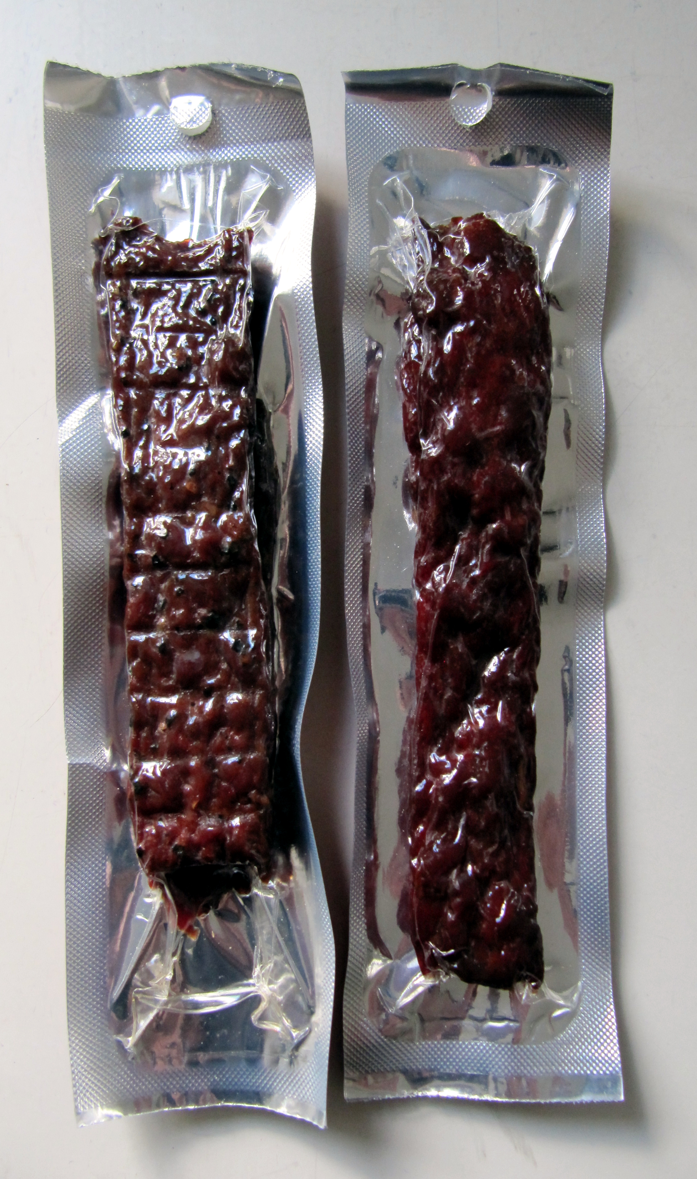 Jerky beef